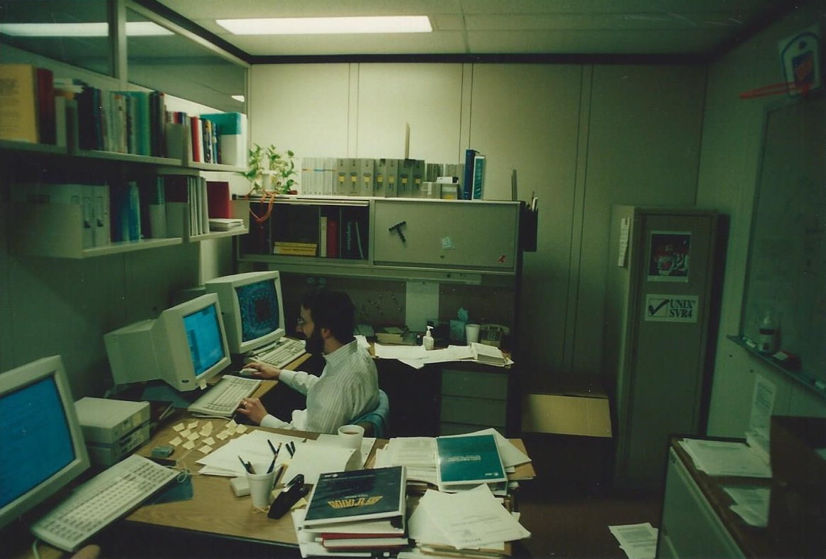 A software developer at work in a typical interior office within the Unix System Laboratories building in Summit, New Jersey. (Although the photograph was taken after USL was acquired by Novell, the office shows the manuals, folders, and signs of the AT&T/USL era.)